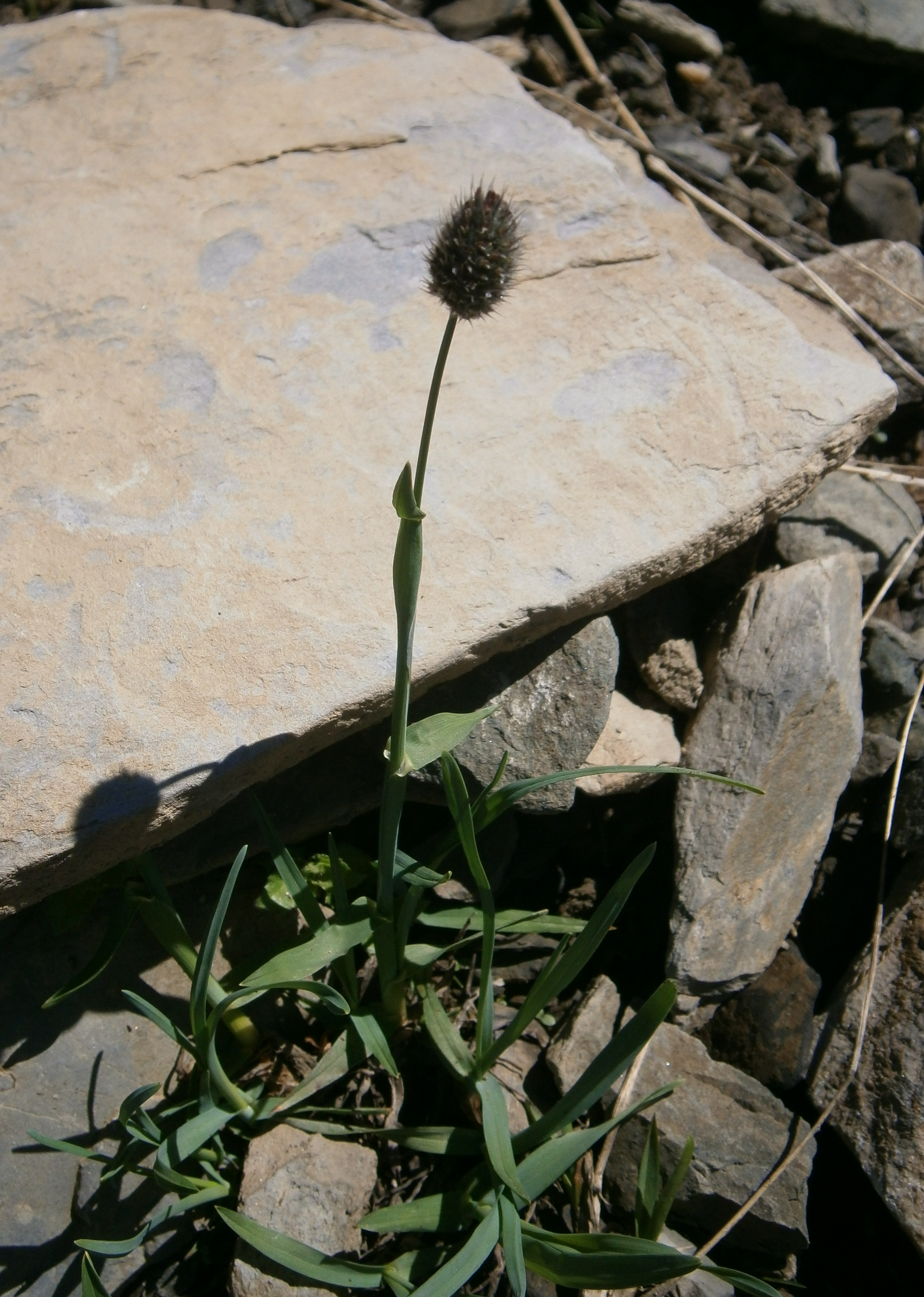 Alopecurus gerardii in the Oisans